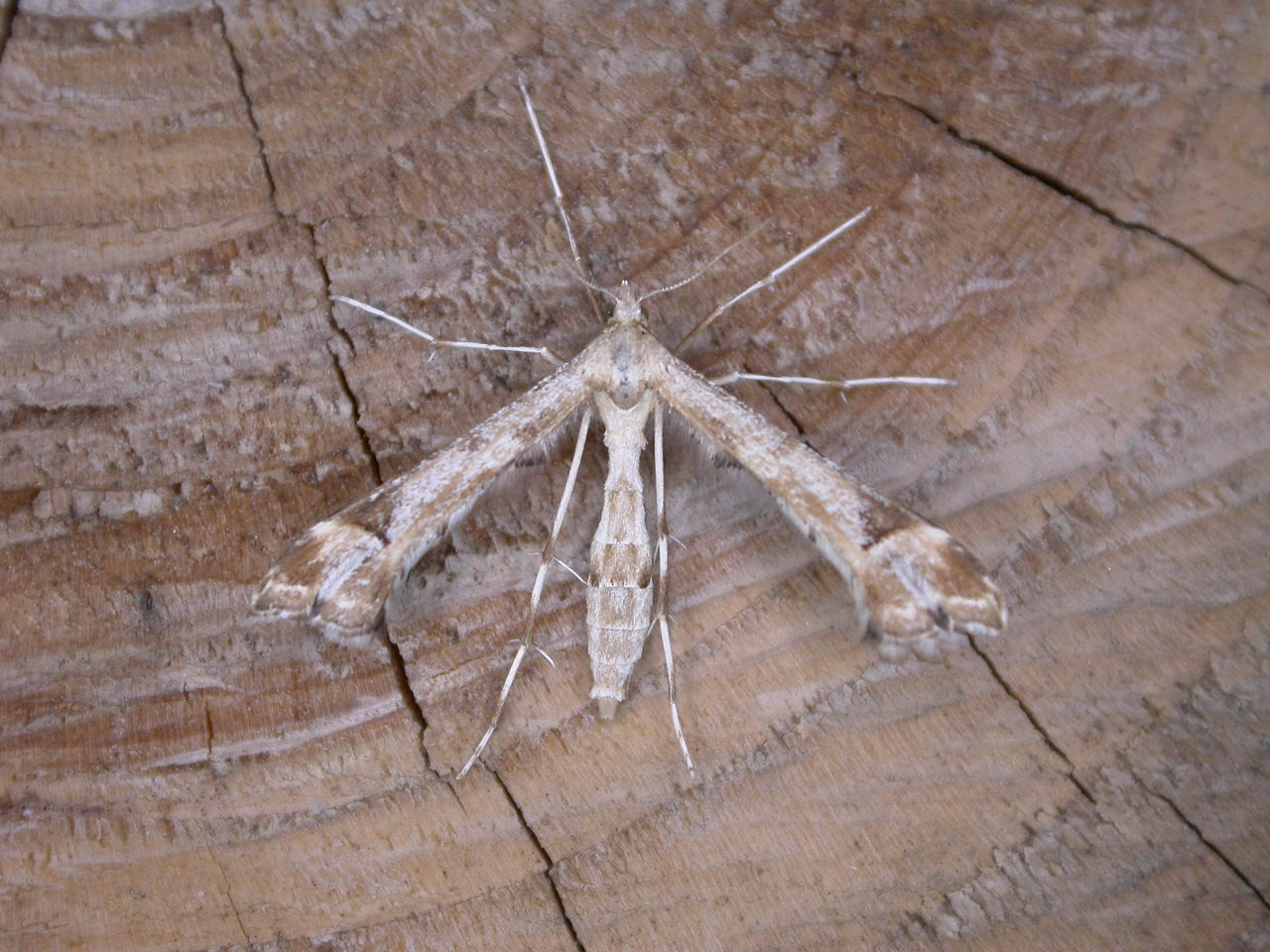 Platyptilia gonodactyla, Dybbølsbro, Denmark, 28 July 2003